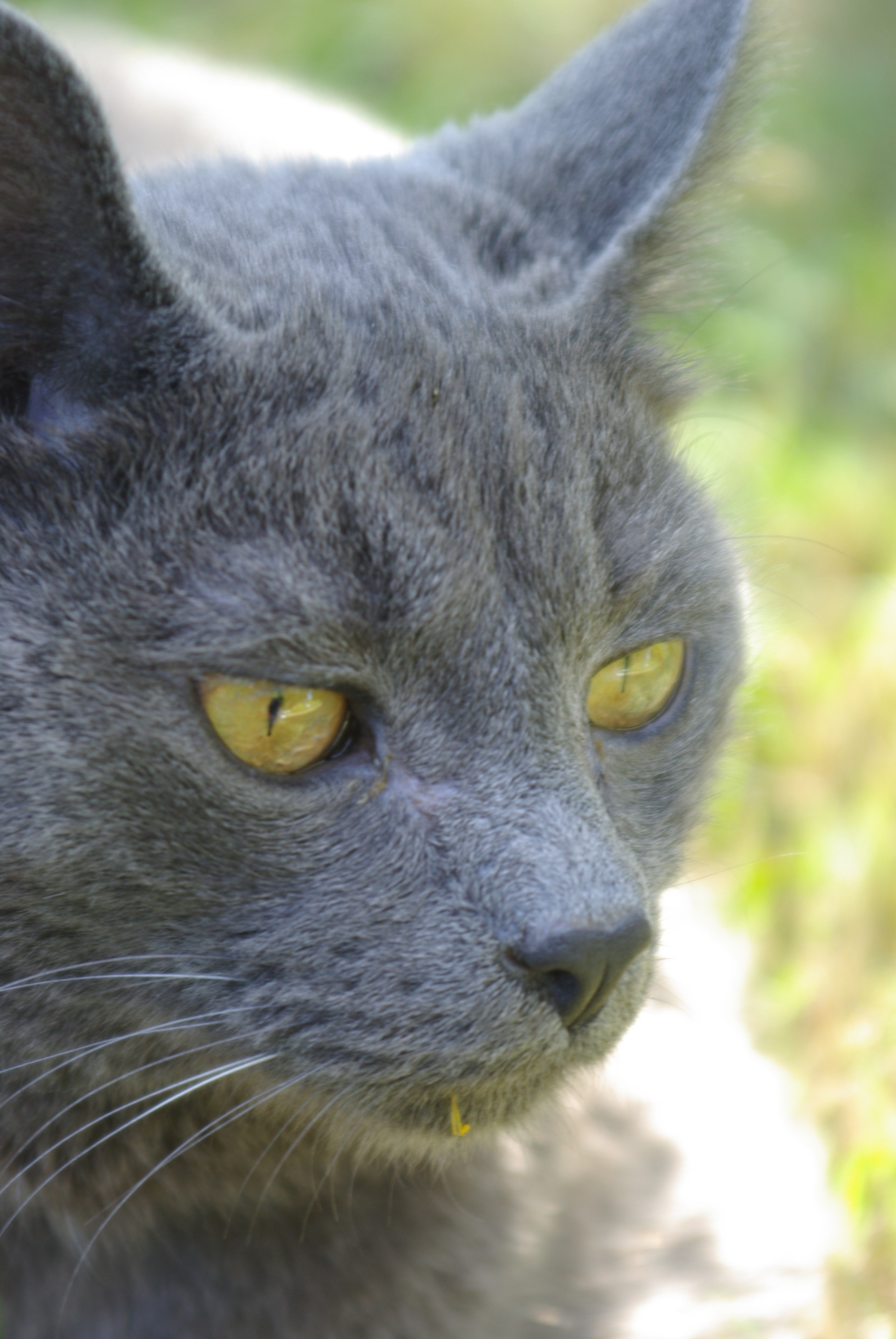 A photograph of the Chartreux cat named Joulupukki.